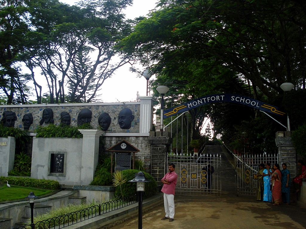 Montfort School, run by the Montfort Brothers of St. Gabriel, is one of the Christian-run schools in the Yercaud hill town for boys.